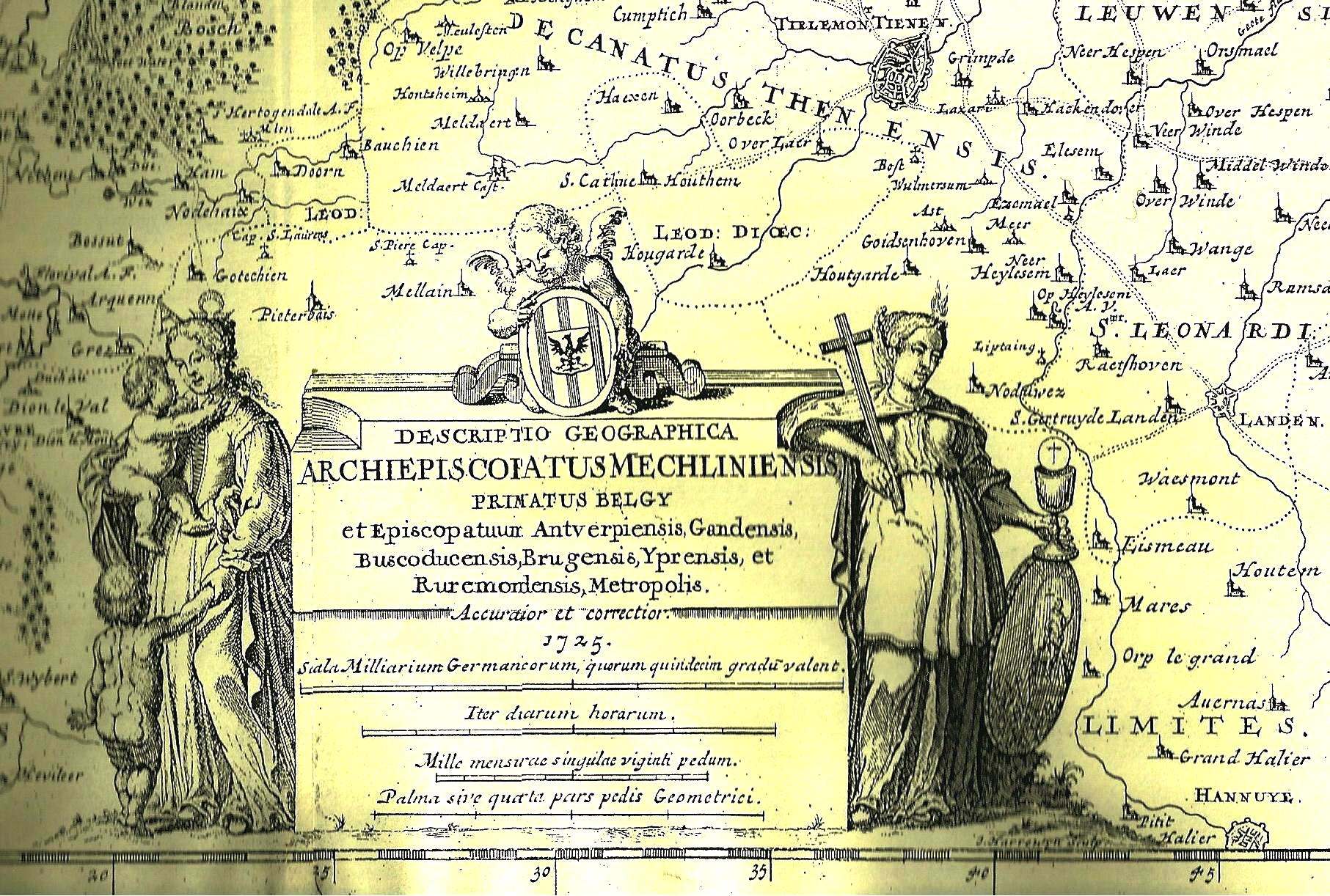 Episcopal map of the Southern Spanish Netherlands dating from 1725, legend showing Primatus Belgy